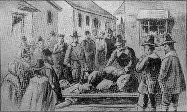 Digitally restored version of Commons file File:Giles Corey.jpg: Old drawing of the death of Giles Corey (Sept. 19, 1692) by being pressed with heavy stones for failing to enter a plea to the charge of being a witch during the Salem Witch Trials.